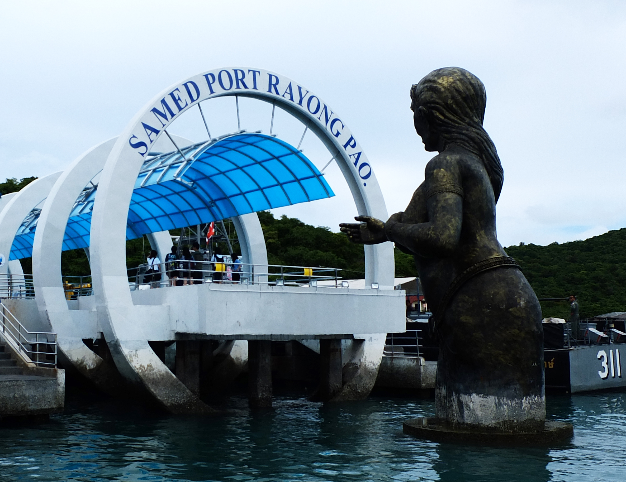 อุทยานแห่งชาติเขาแหลมหญ้า-หมู่เกาะเสม็ด